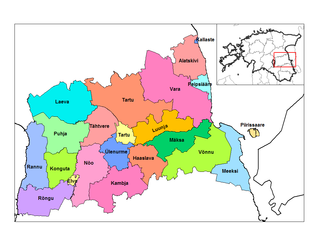 Map of the municipalities of Tartu county in Estonia. Created by Rarelibra 17:36, 22 December 2006 (UTC) for public domain use, using MapInfo Professional v8.5 and various mapping resources.